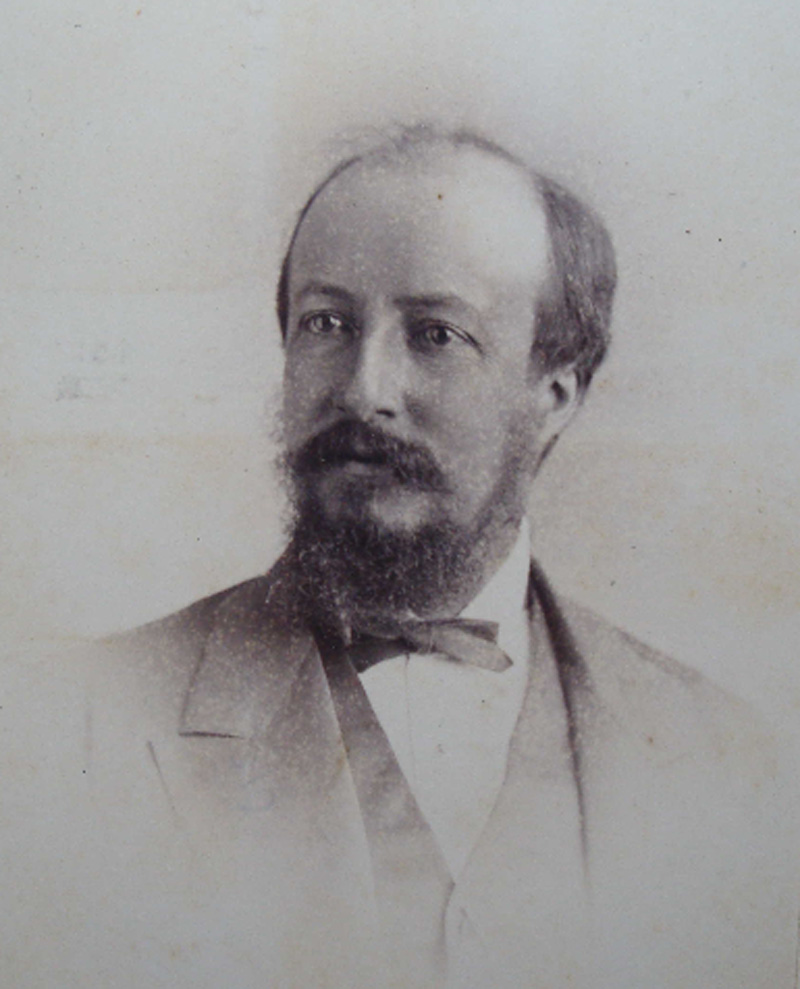 Edward Milner (1837-1902) resident of Hartford Manor